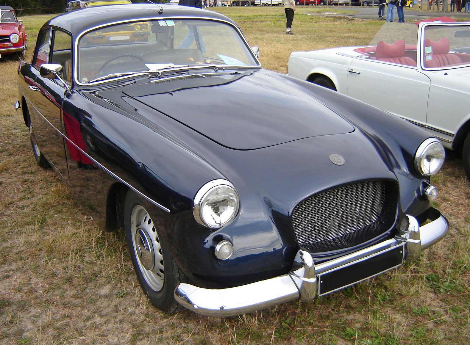 1961-62 Bristol 407 at the Autodrome de Linas-Montlhéry Montlhéry 2009 - registered in Vincennes, this 407 is missing the little chromed crossbar in its grille.